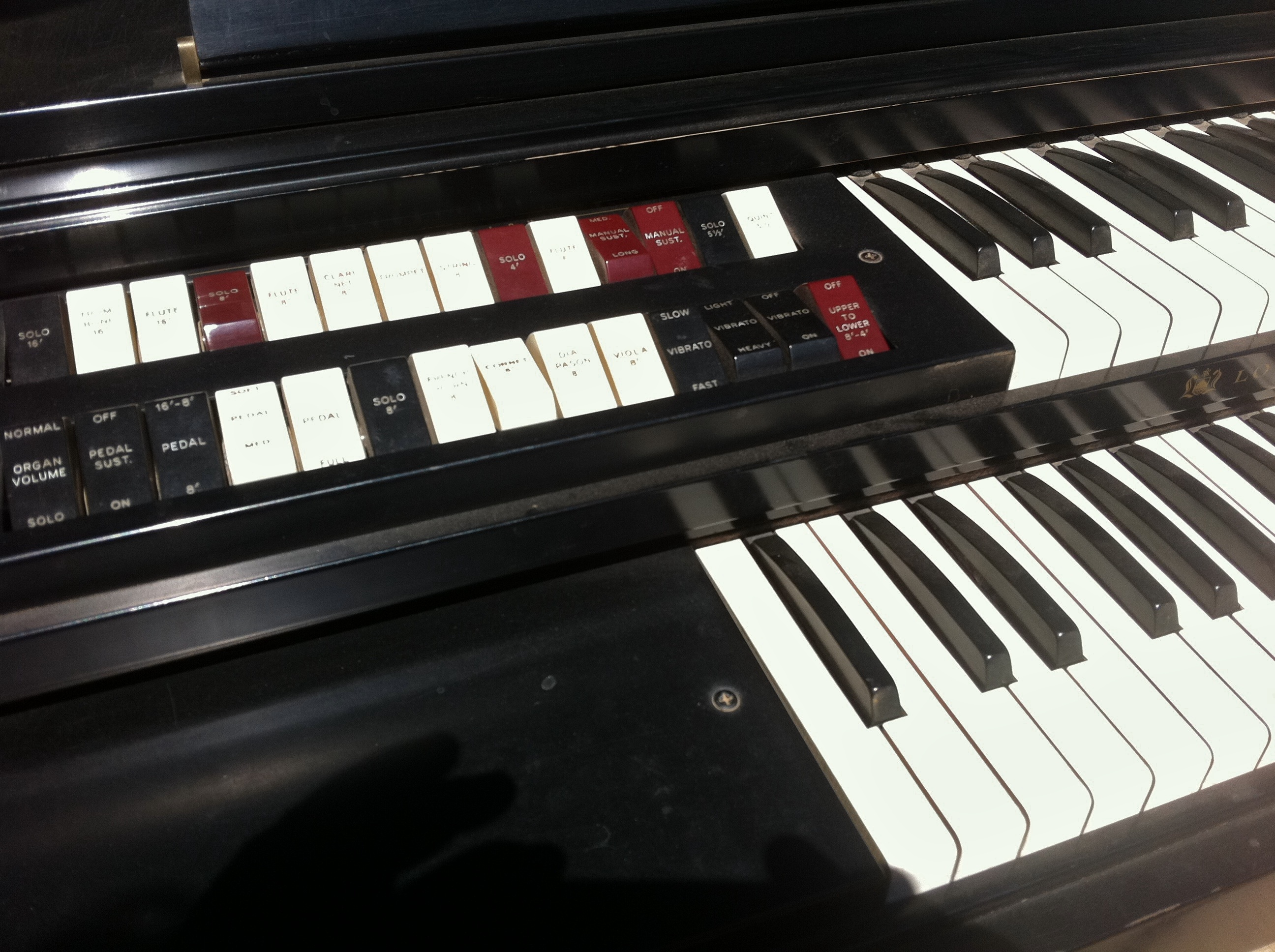 Spotted at the Pine AZ Thrift Store (I have zero business even thinking about this) "In 1961, Lowrey’s first home organ with a built-in Leslie speaker appeared as the Holiday Deluxe Model LSL. Automatic Orchestra Control, later renamed Automatic Organ Computer, came on the scene in 1963."— Pugno & Curry 2005